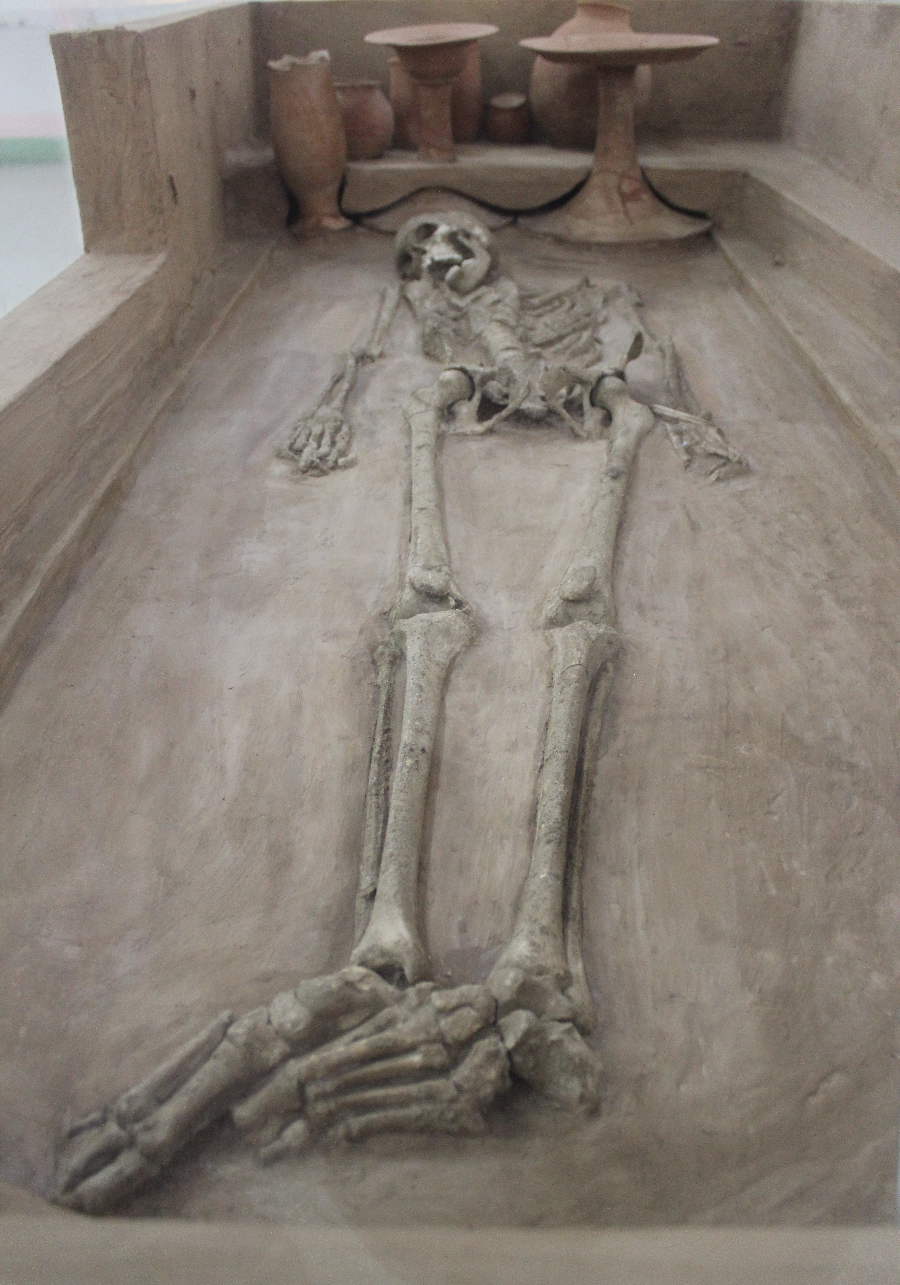 This is one of the Skeletons found from Rakhigarhi which is in Haryana which was a site of the Harappan Civilizations. It is Displayed in the National Museum, New Delhi